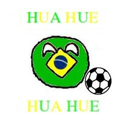 Brazilball, a football-crazy ever-laughing countryball.